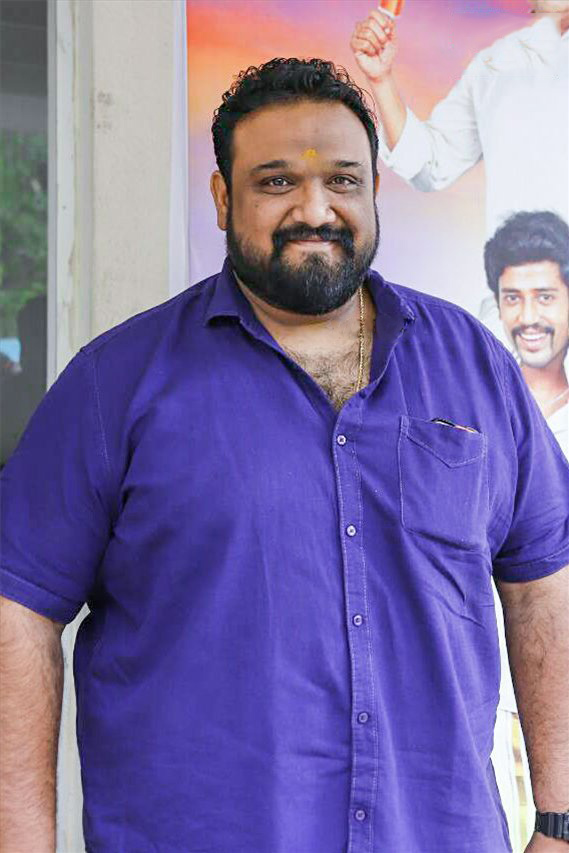 Siva at Maniyar Kudumbam Audio Launch